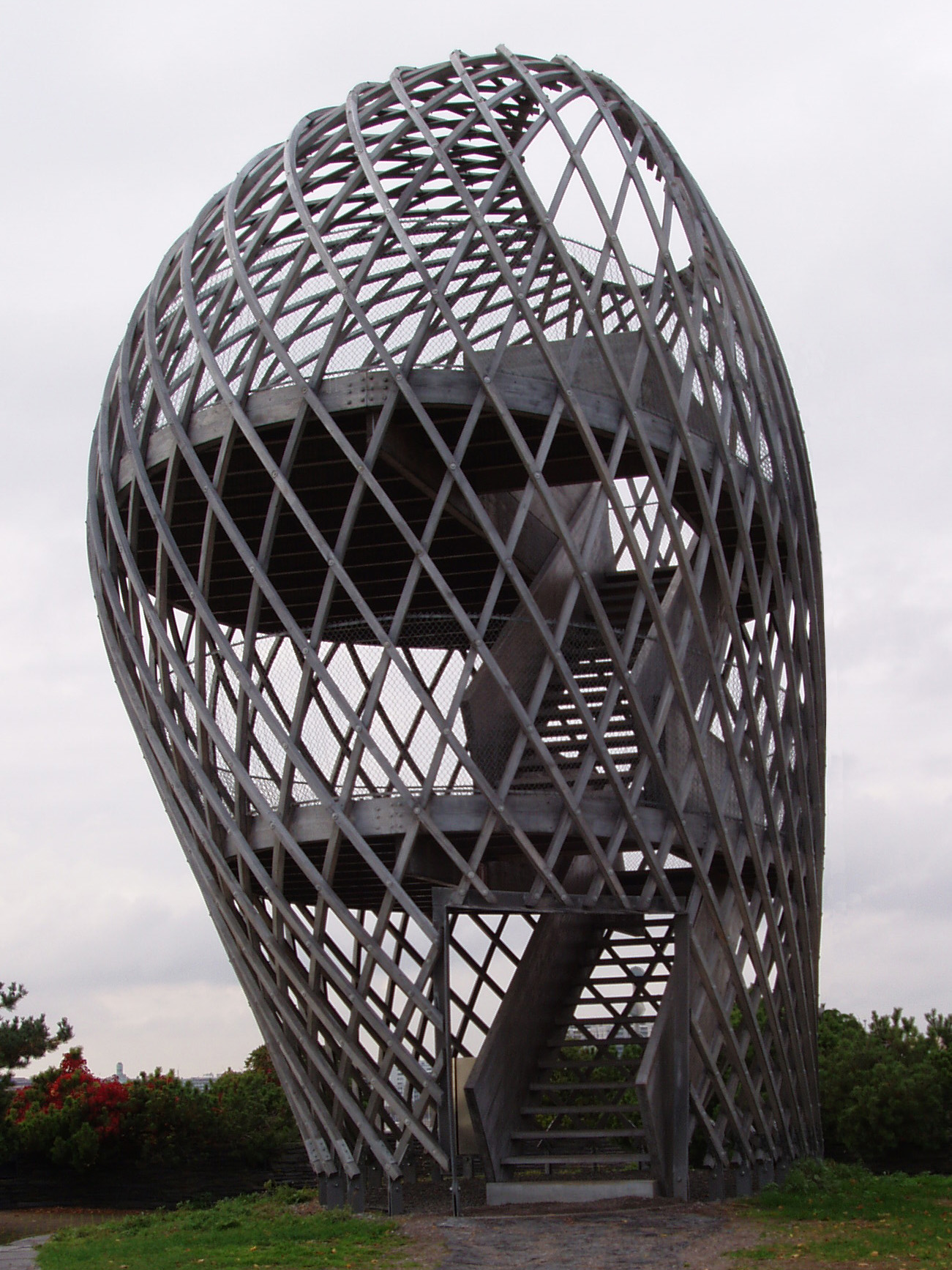 Wood Studio, Observation Tower, Helsinki Zoo